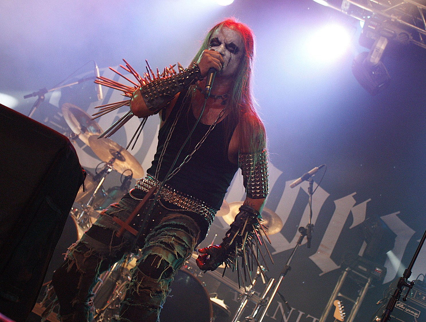 Hoest, vocalist of Taake, performing live with Gorgoroth.